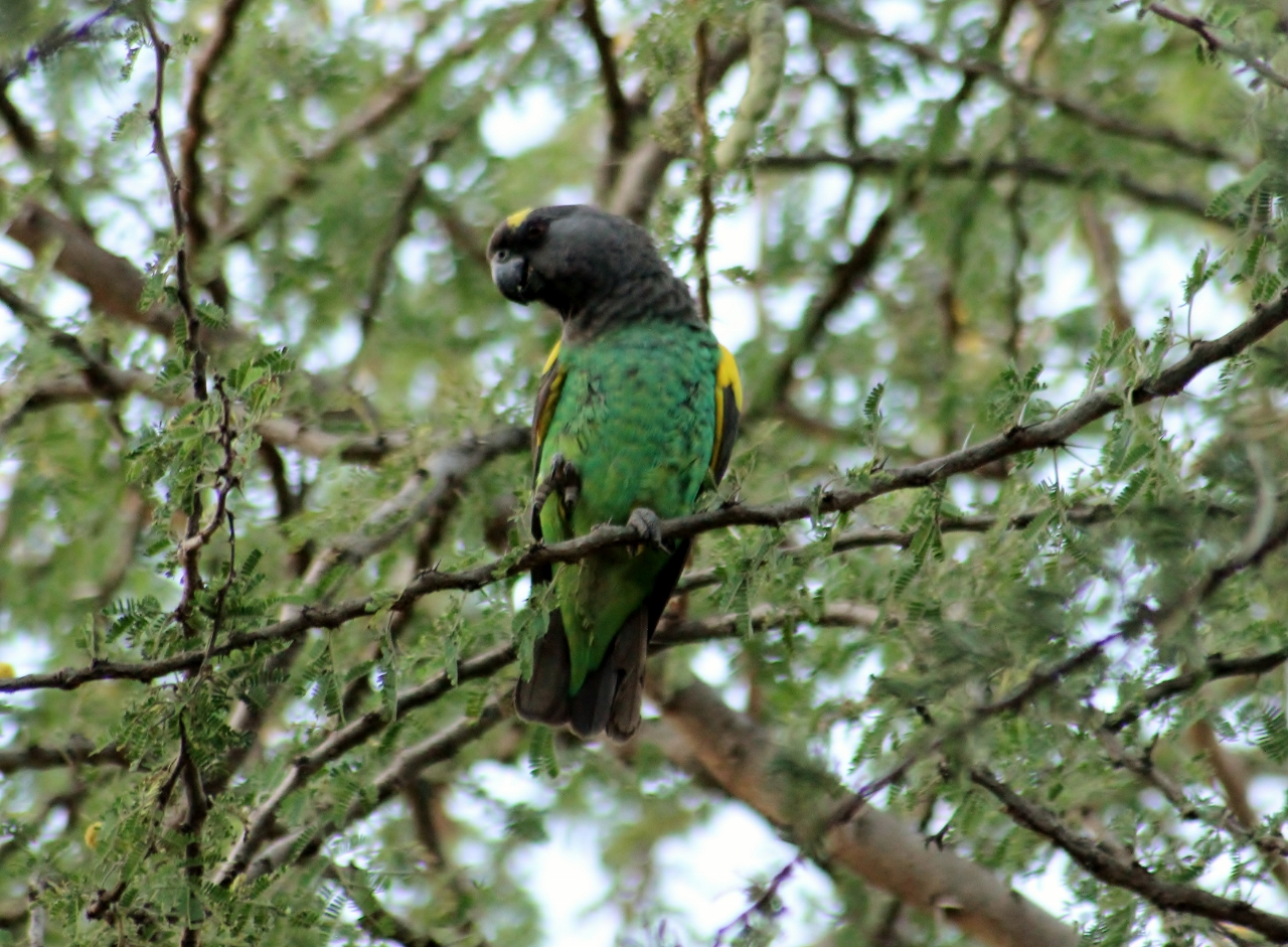 A Meyer's Parrot in Serengeti National Park, Tanzania.